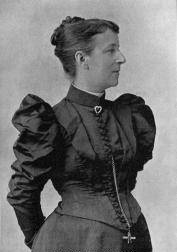 An 1890 photograph of the feminist author Laura Ormiston Chant. Taken by John Henry Barrow.